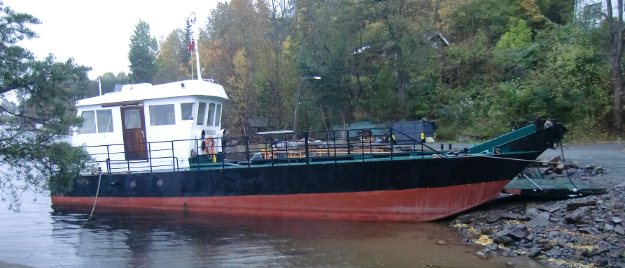 Steel boat